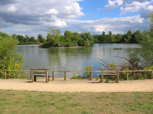 Thatcham Discovery Centre, Seating Area. A seating area on the western side of the main lake, with a floating surveillance nesting area visible on the lake